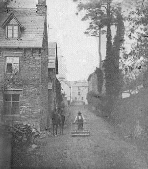 old road in Ambleside with road mender at work